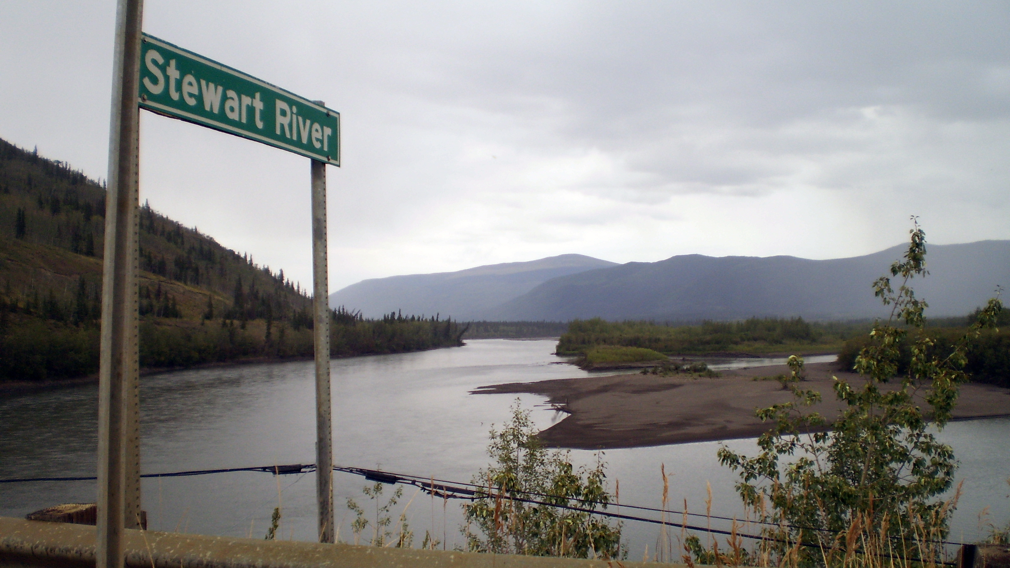 The Stewart River in Yukon Territory, Canada, is seen in August 2009 from a bridge crossing it.